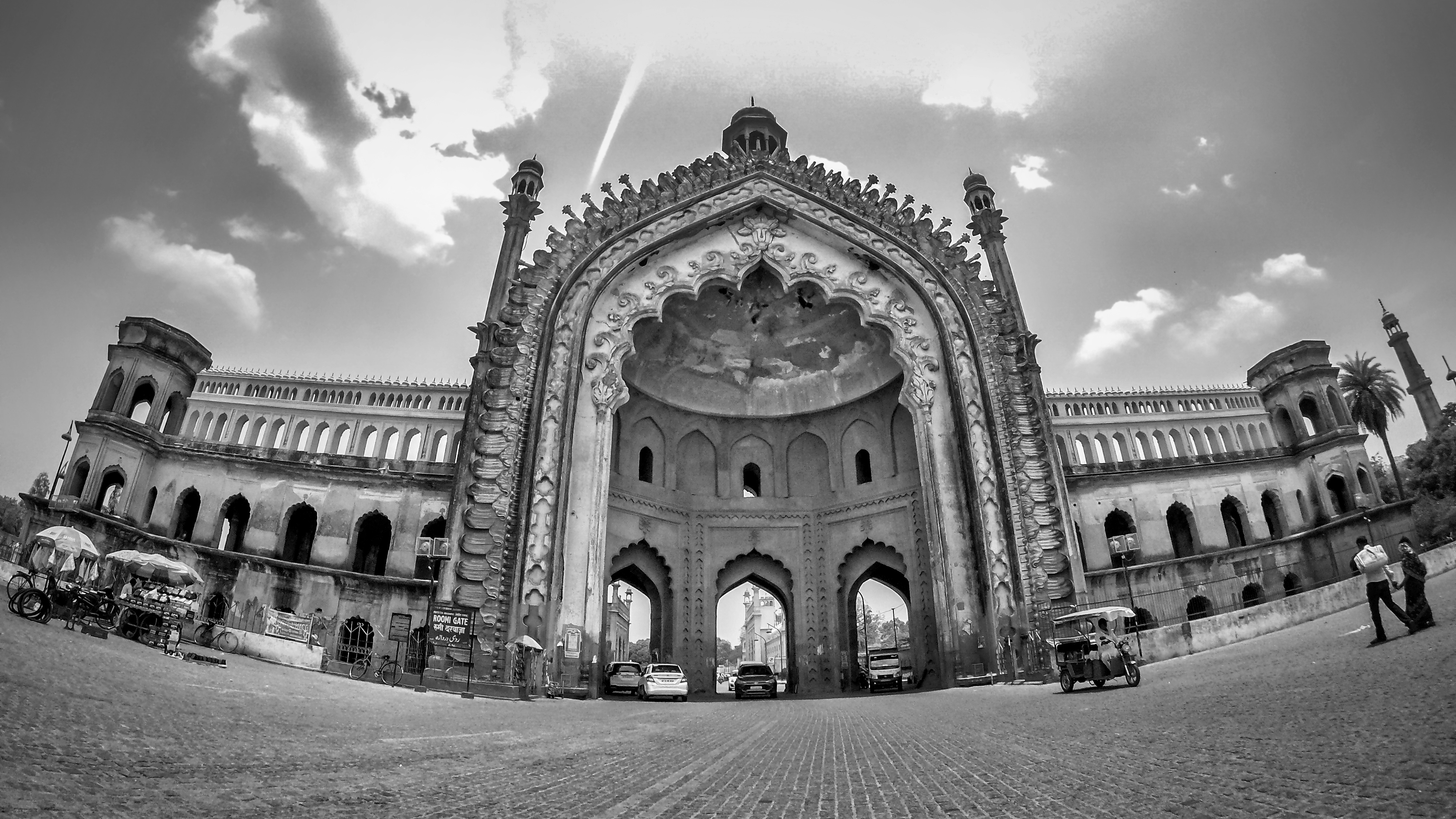 During the summer days, mid day, harsh daylight with pinching sunrays. At the time of Ramzan, when it was found empty because of prayer time, generally it's very much busy lane.